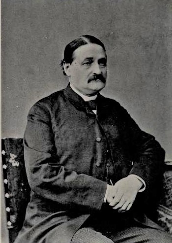 Portrait of Hauptpastor Adolf Glitza (1820-1894)